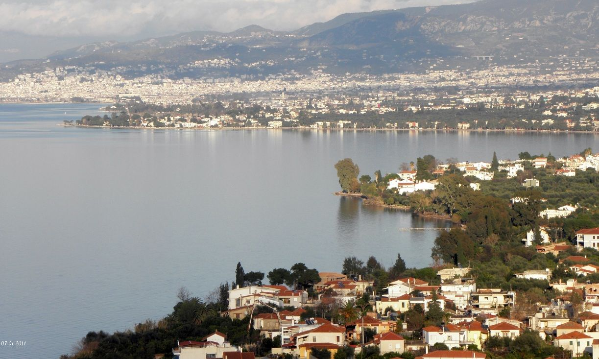 Panoramic view of Tsoukaleika village, Achaia, Greece.